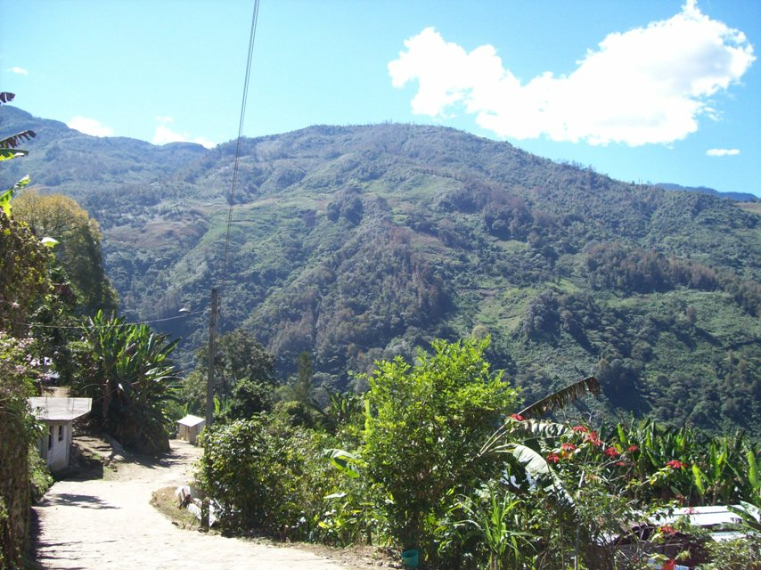 San José Chinantequilla, Oaxaca